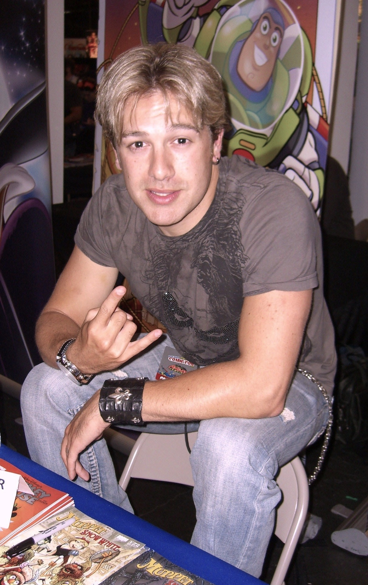 Comic book creator Jesse Blaze Snider at the New York Comic Convention in Manhattan, October 9, 2010. Photo by Luigi Novi. This photo may be used, modified and published for any purpose, only if a easily visible credit to the photographer is placed near the photo in each instance in which it is used. (See licensing information below.) Publication of this photo without this proper attribution constitute copyright infringement. For more information on my photos, you can contact me here.